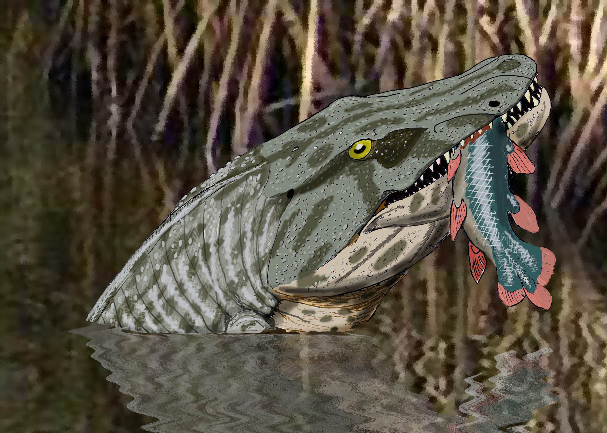 Megalocephalus - biggest loxommatid